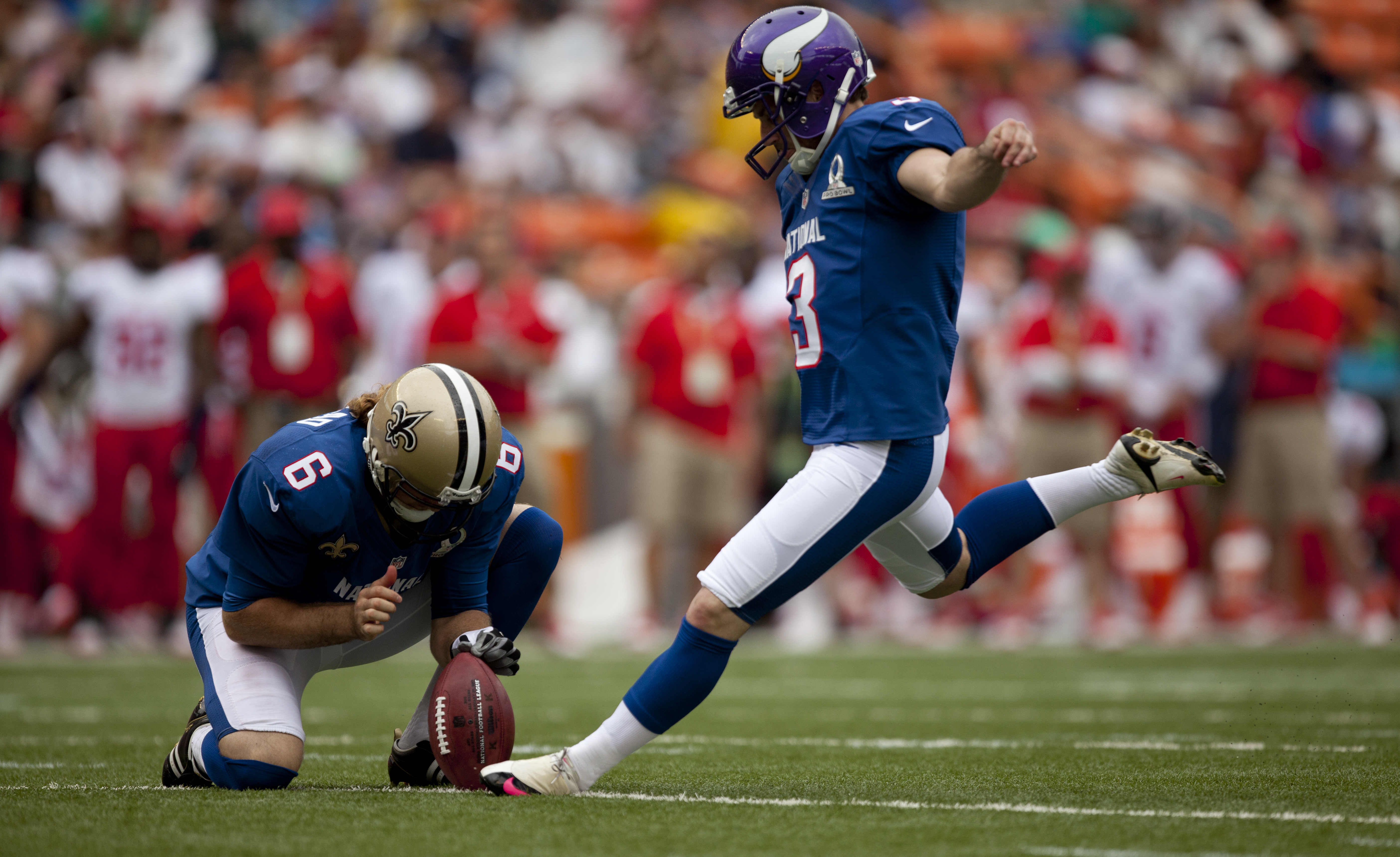 Blair Walsh and Thomas Morestead at the 2013 Pro Bowl.